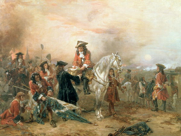 Painting of the "Duke of Marlborough signing the Despatch at Blenheim" (oil on canvas). [image retouched at pen, file in JPEG format, 6x times faster than PNG format, up to 25 seconds faster display.)